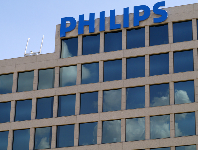 Philips España S.A headquarters in Madrid.